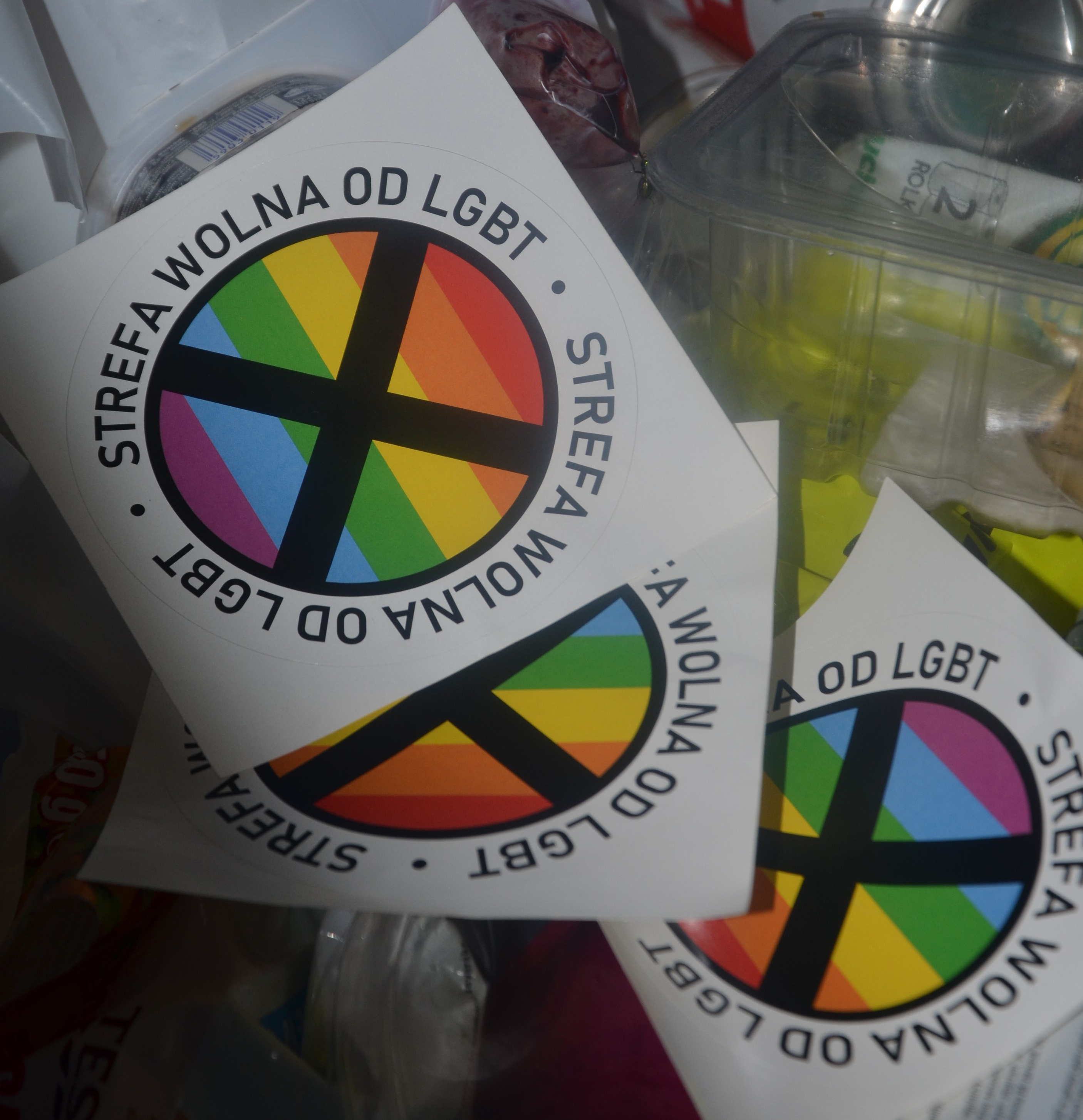 LGBT free zone, cursed rainbow, Gazeta Polska